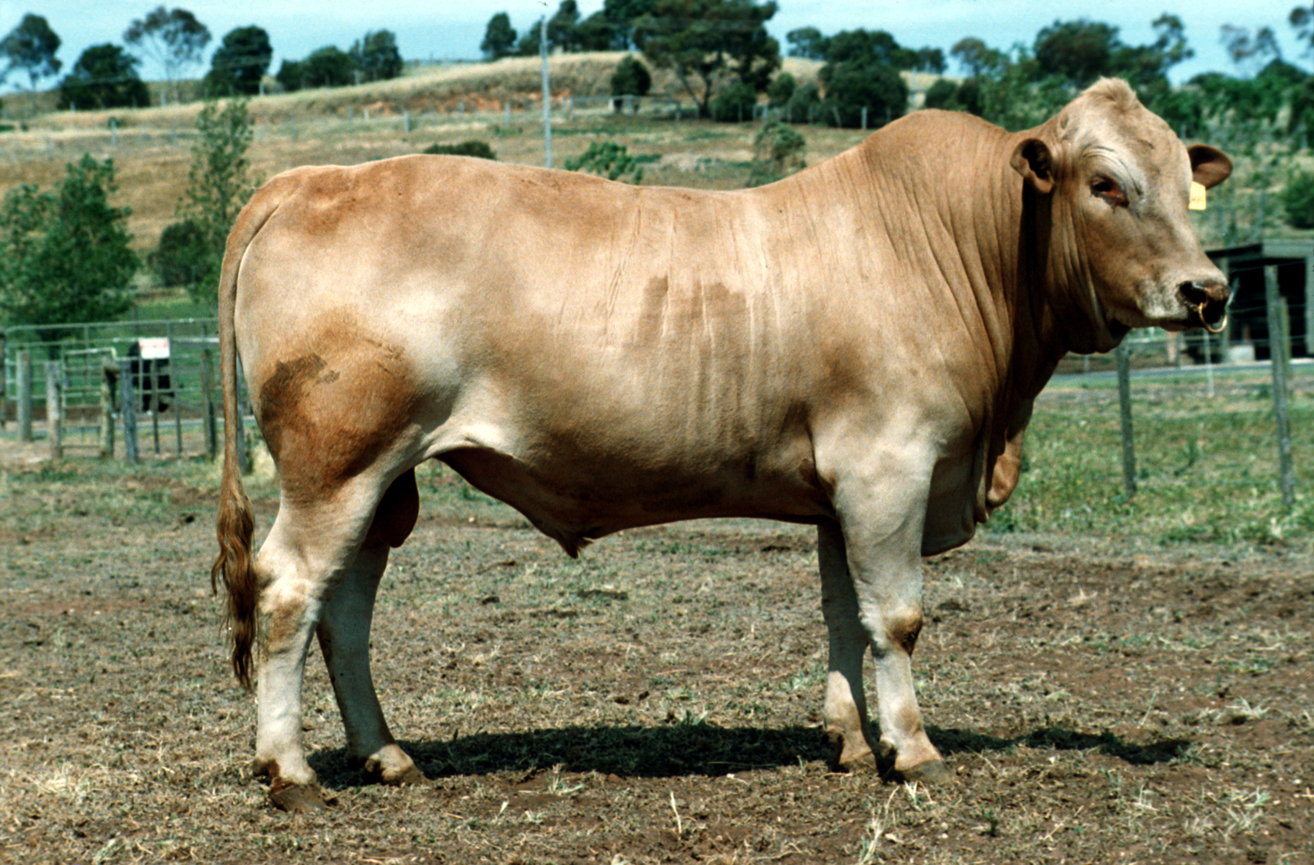 Tuli bull - some are used as donor sires to broaden the gene pool in cattle breeding. The Boran and Tuli cattle breeds from Africa were introduced into the Australian cattle industry in the mid-1990s to produce crossbreeds that would benefit from the early maturing characteristics of the Afriacan breeds, providing an option for producers to boost both the meat quality attributes and the fertility of existing genotypes. In a large scale commercial trial, the Boran and Tuli crossbreds grew as well on grass as did other breeds, but in the feedlot they had advantages, particularly in their meat quality characteristics. Boran and Tuli crossbreds had higher than average eye-muscle areas and a higher proportion than other crosses had better than average marbling.